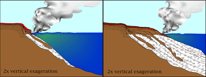 Pahoehoe lava flows build new land at a steep slope.